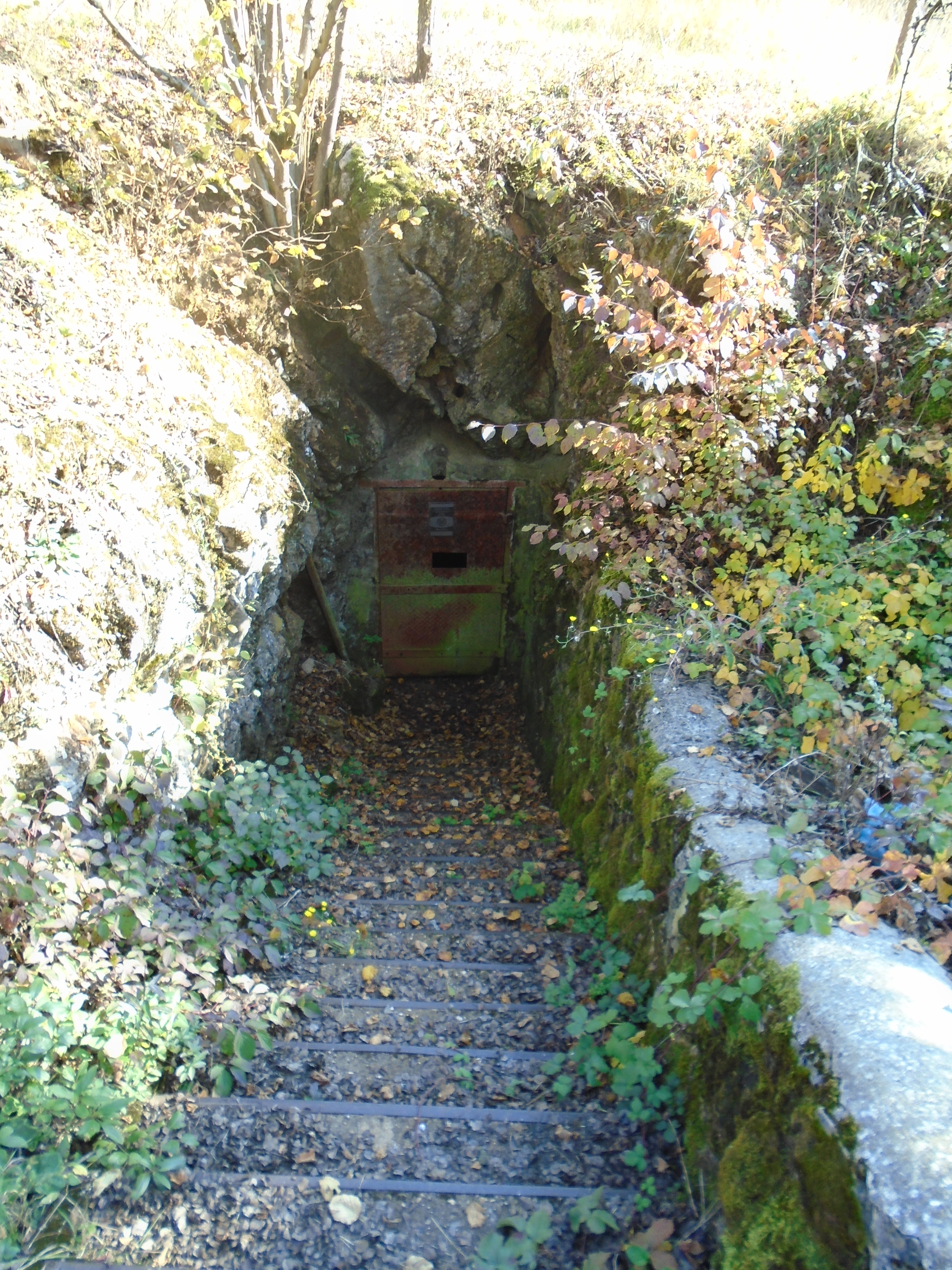 Béke Cave artificial entrance.